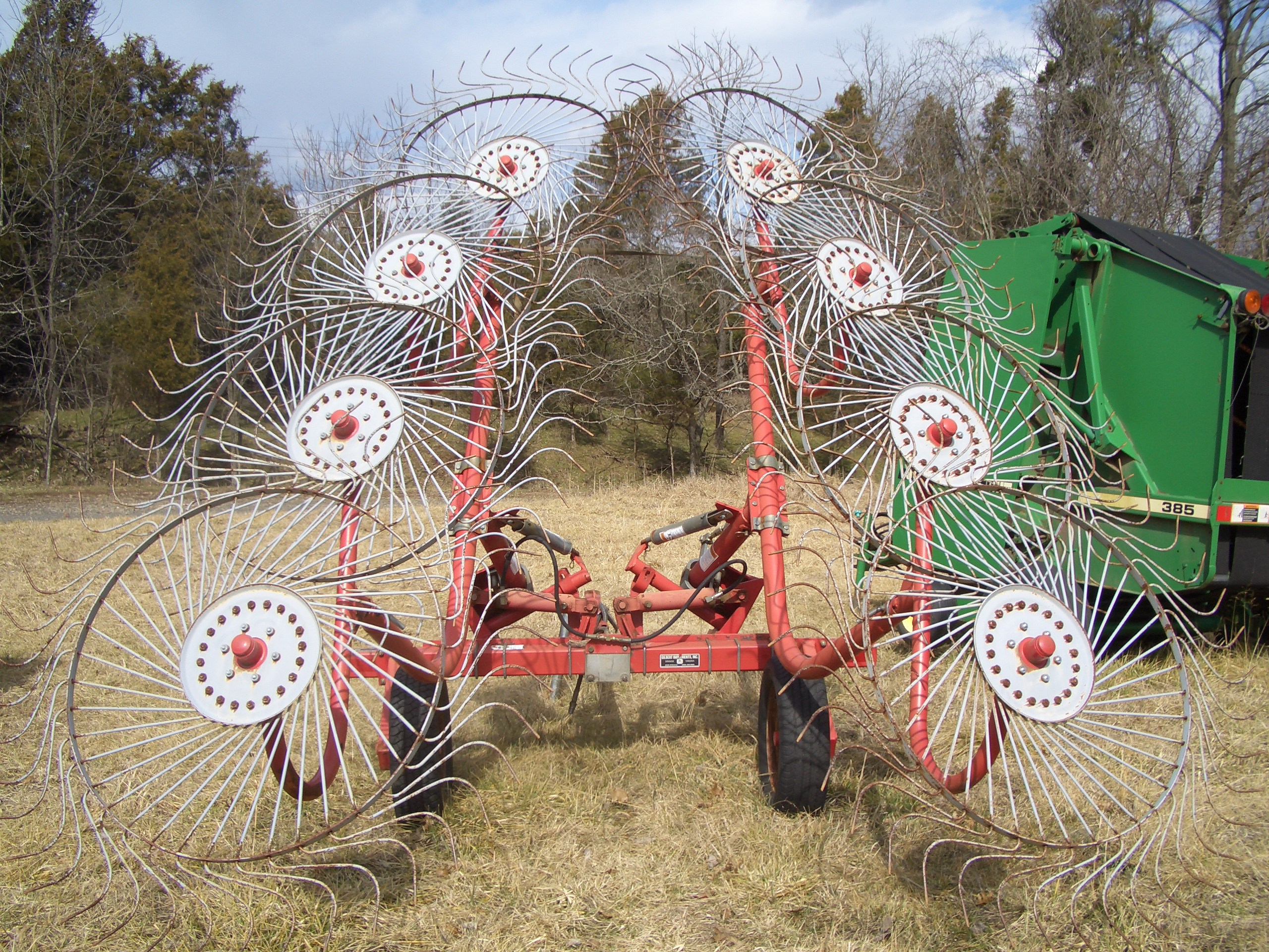 Rear view of a star-wheel hay rake in transport position, Manassas National Battlefield Park, Virginia, USA; a John Deere 385 round baler on the right